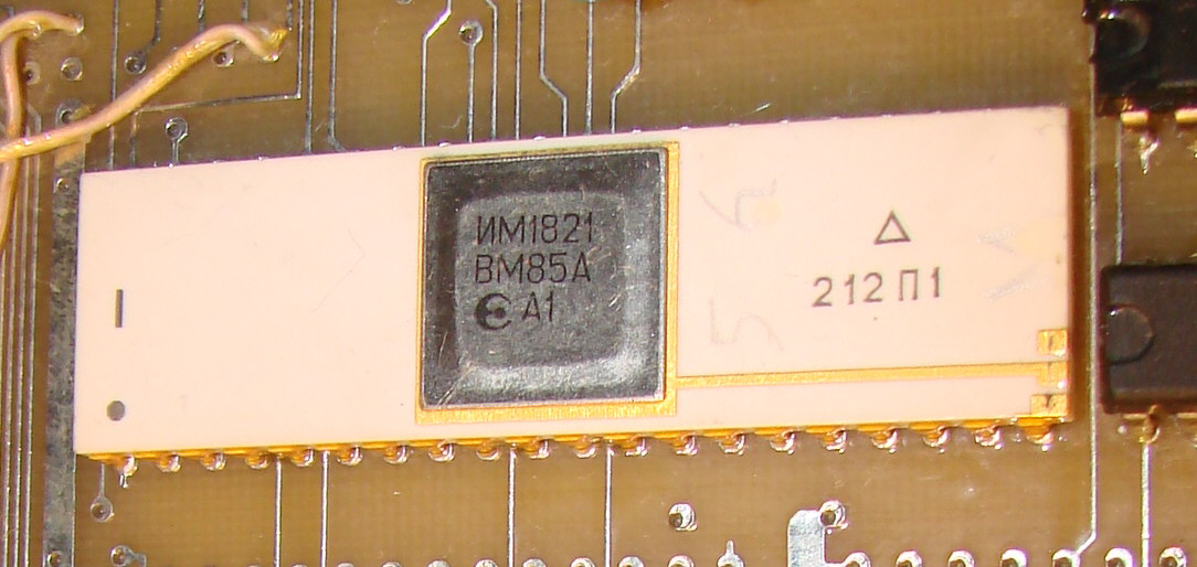 Soviet made processor IM1821VM85A